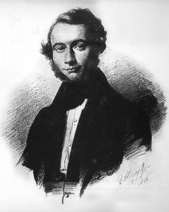 W.C.H. Staring